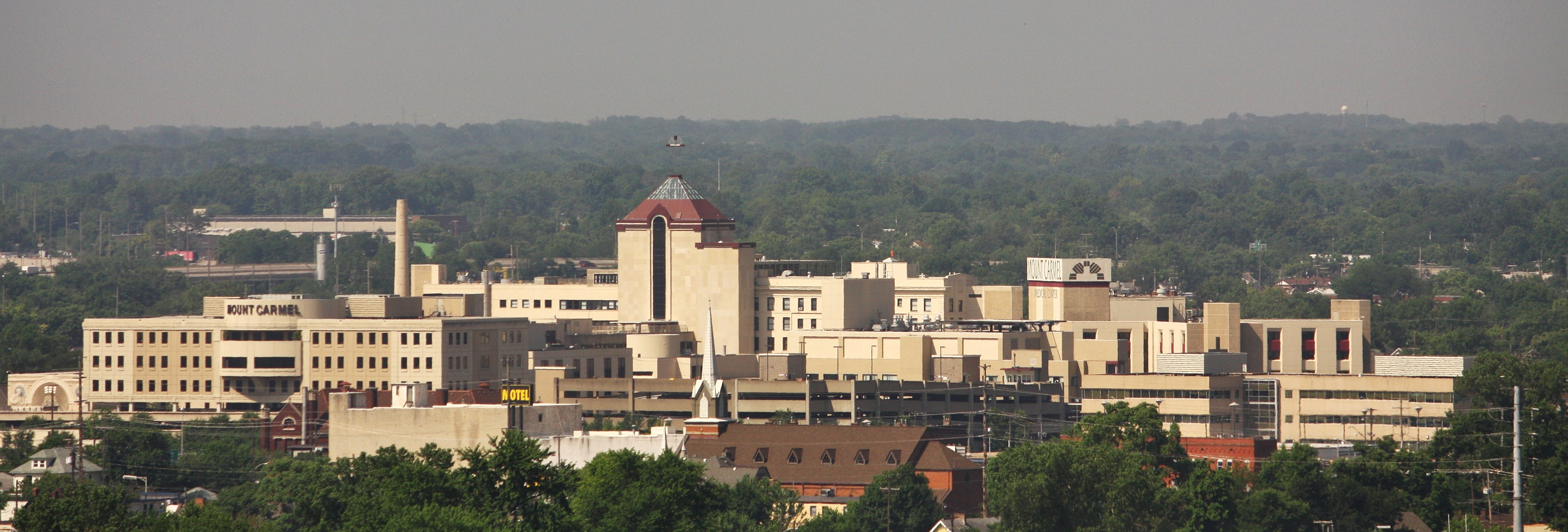 Mount Carmel Medical Center (aka Mount Carmel West), Columbus, Ohio. View from the downtown Hyatt Regency.